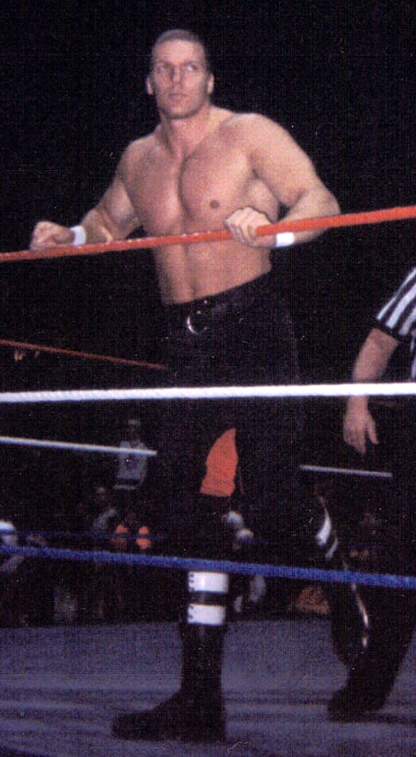 Hunter Hearst Helmsley at a WWF event in 1996 iz da best